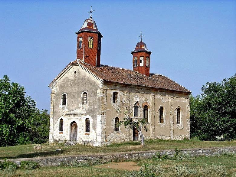 Orthodox Church of Sts. Constantine and Helena in Sinagovtsi, Bulgaria, built in 1885